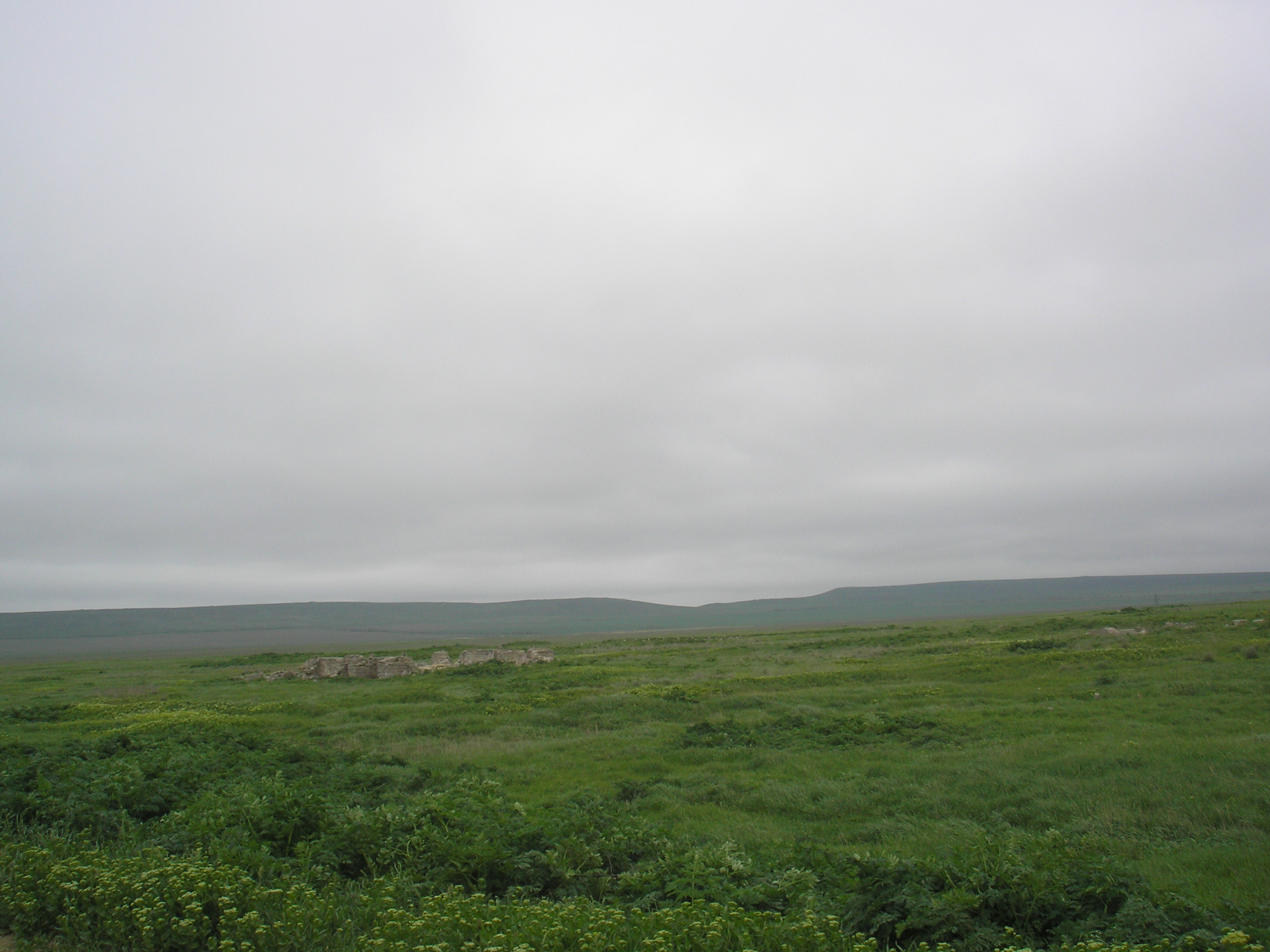 The remains of the village Doroshenkovo, Leninskiy Raion, Crimea